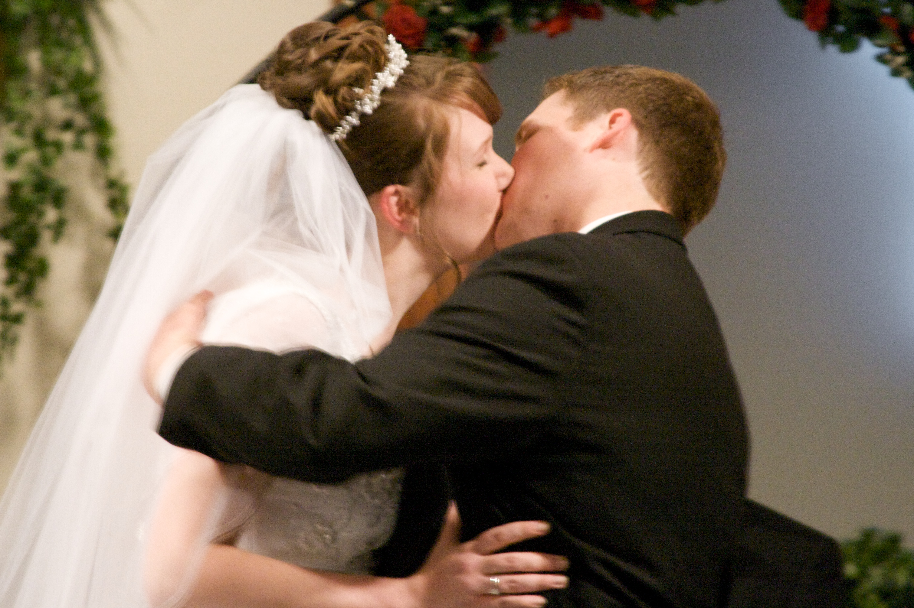 Their first kiss ever. They saved it for their wedding day.